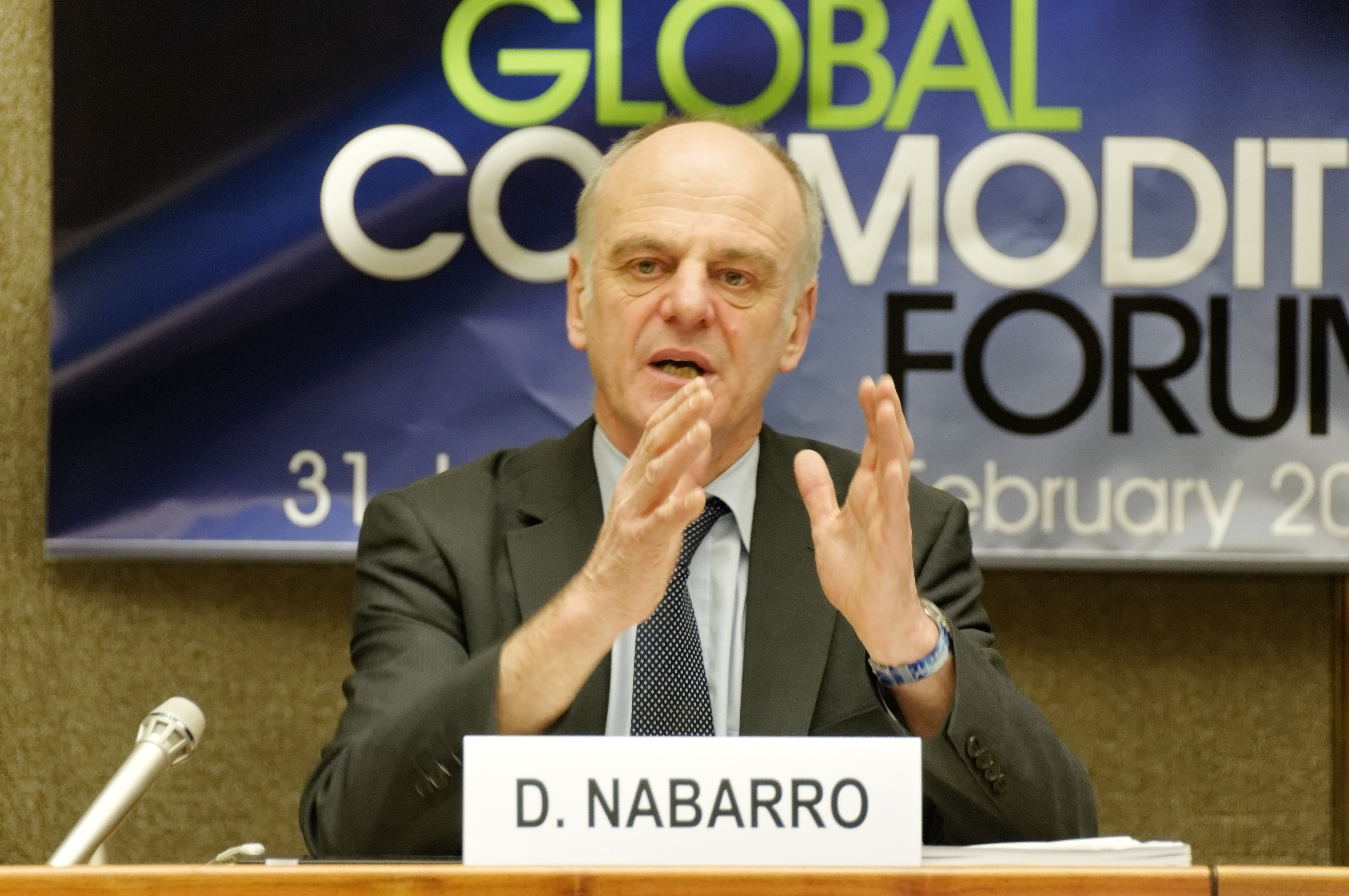 Mr. David Nabarro, Special Representative on Food Security and Nutrition, UN High-level Task Force on the Global Food Security Crisis